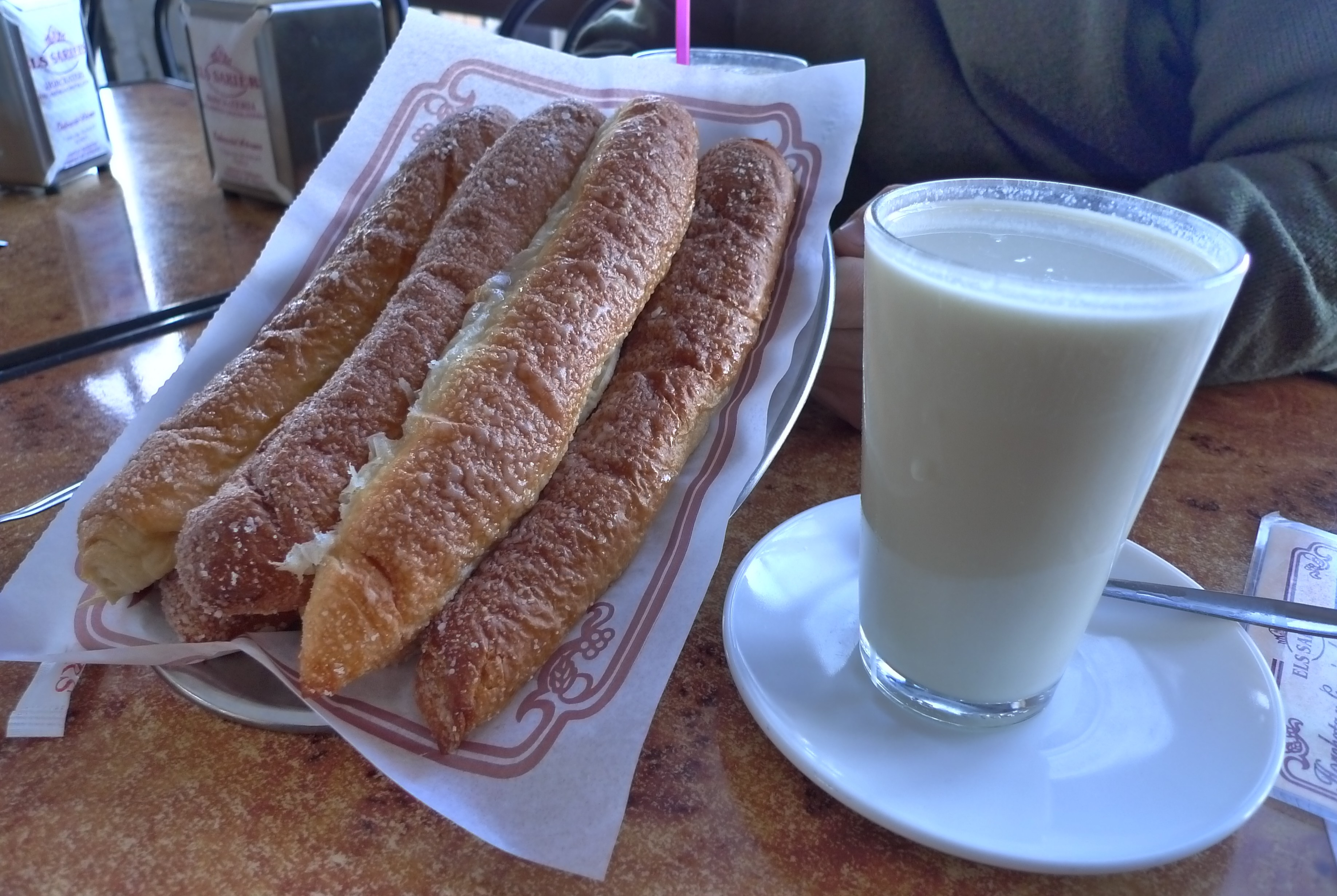 Horchata